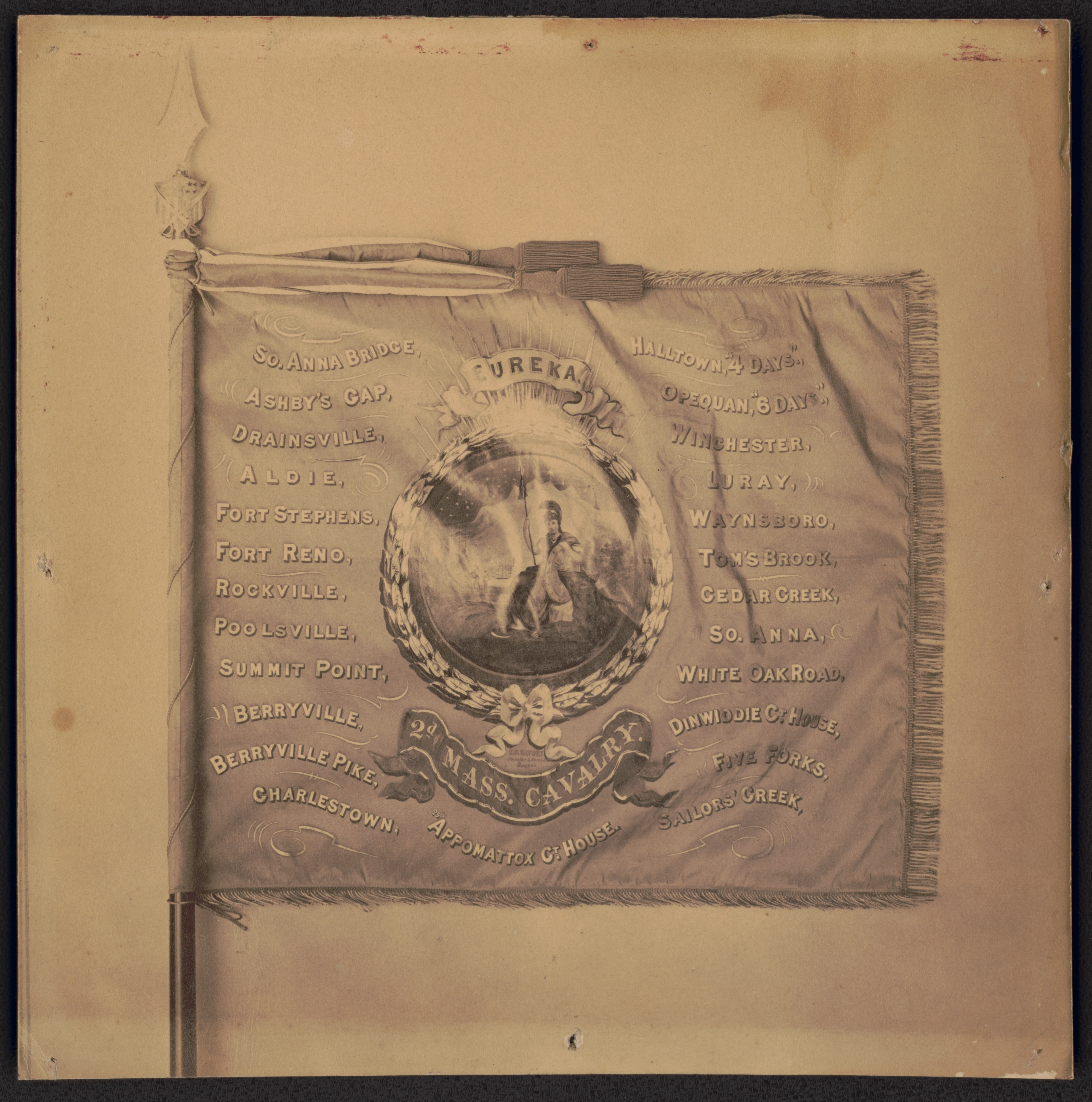 Title: Regt. flag of the 2d Mass. Cavalry, Benjamin Locke, Sgt., A Company Abstract/medium: 1 photograph : albumen print on mount ; mount 17 x 17 cm.